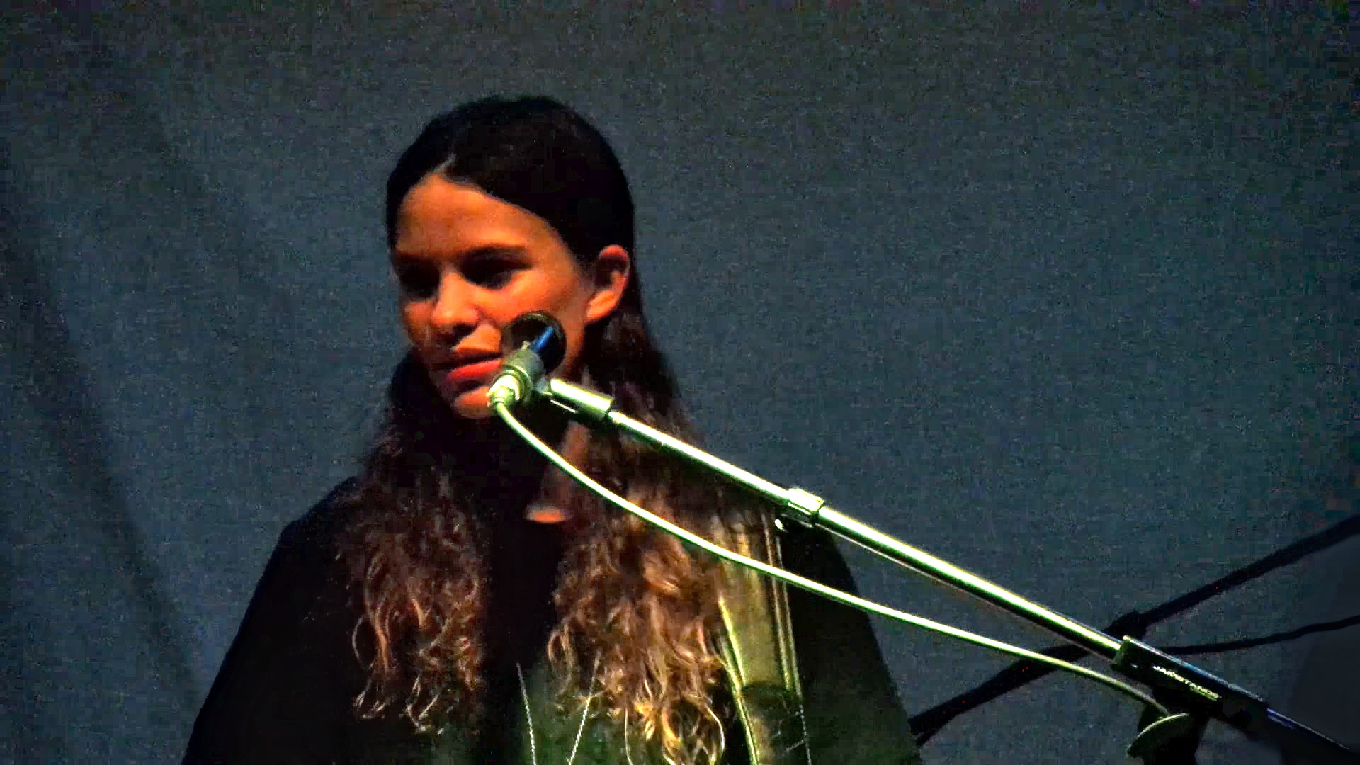 Eliot Sumner at the Milkboy Cafe Phila PA 9/18/2015